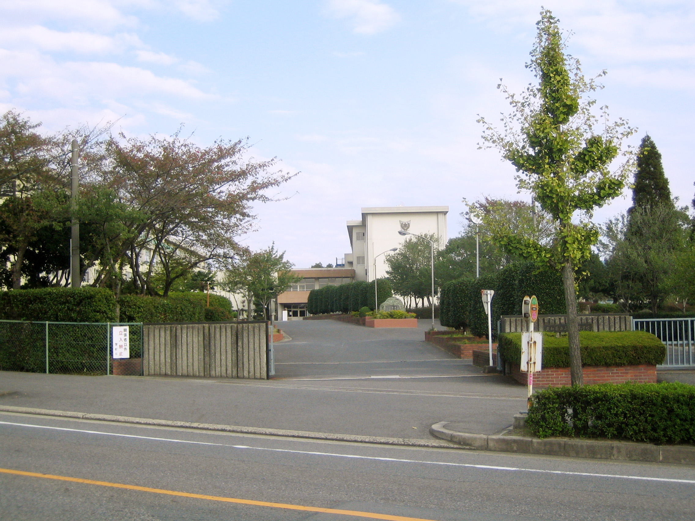 Miyoshi High School (三好高等学校), at Miyoshi, Aichi, Japan